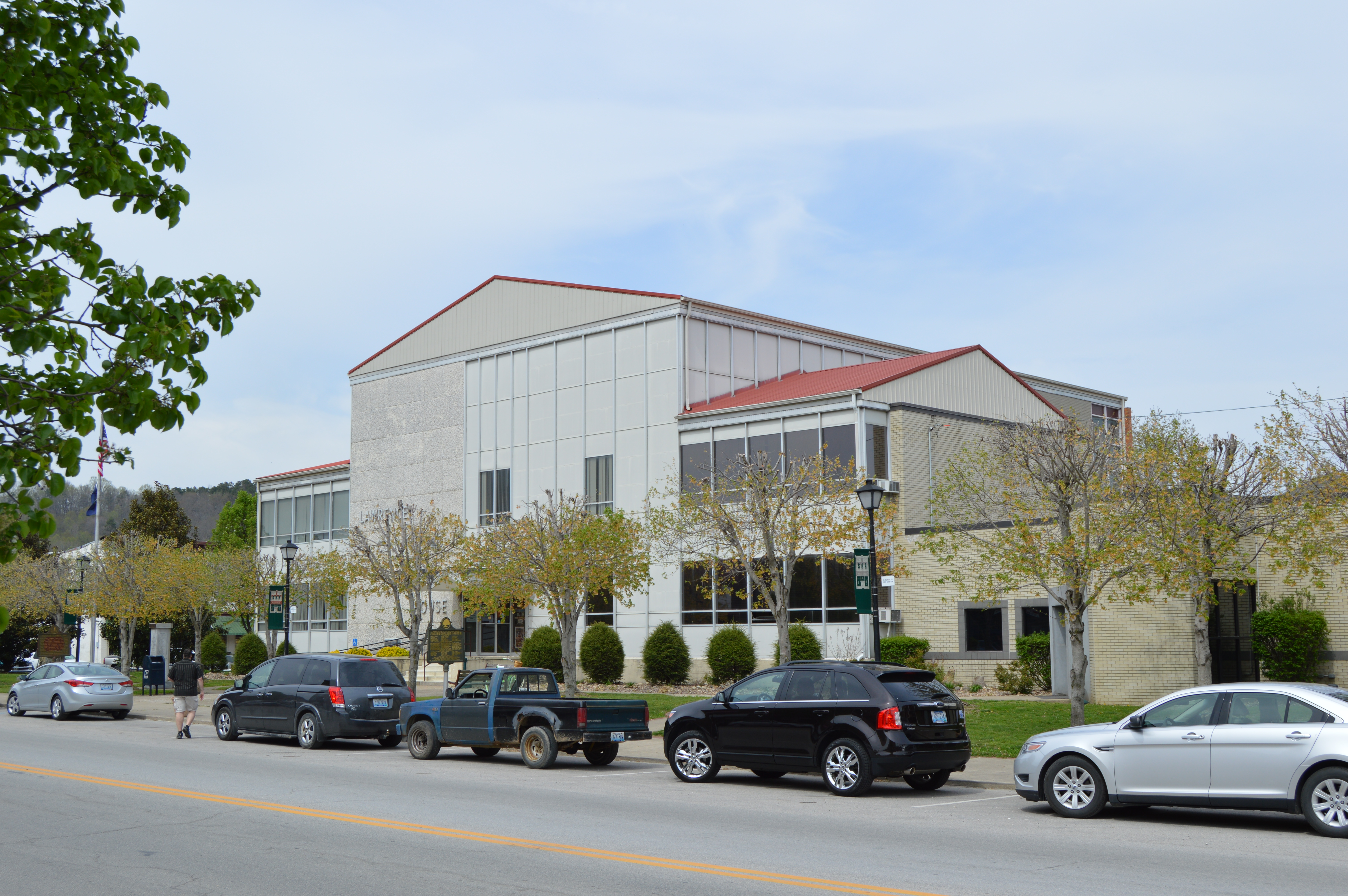 Front and southern side of the Lawrence County Courthouse, located at 122 S. Main Cross Street (Kentucky Route 2566) in downtown Louisa, Kentucky, United States. It was built in 1964.